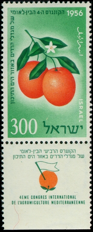 International Citrus Growers' Congress stamp - 300 mil. Inscription on tab: "The Fourth International Congress of Mediterranean Citrus Growers - 1956"